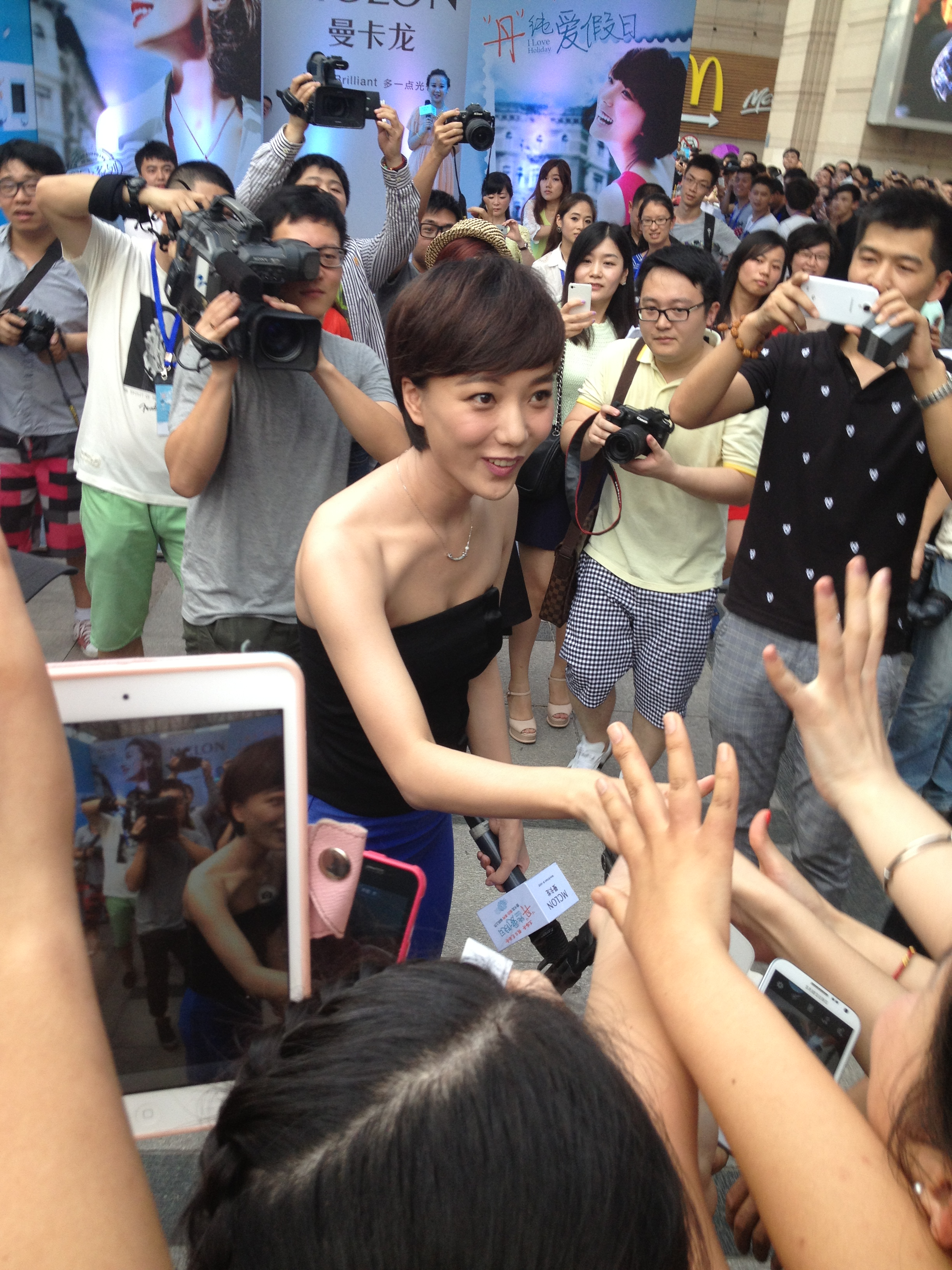 Wang Luodan in Hangzhou , May , 2013.